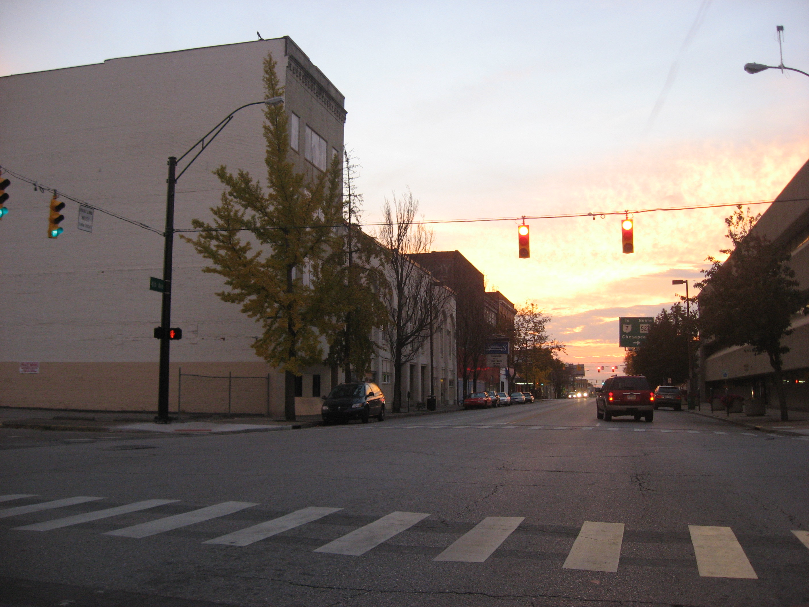 Buildings on the southern side of Fourth Avenue, seen from the Seventh Street intersection, in Huntington, West Virginia, United States. This block of Fourth is part of the Built in 1874, it is part of the Downtown Huntington Historic District, a historic district that is listed on the National Register of Historic Places.